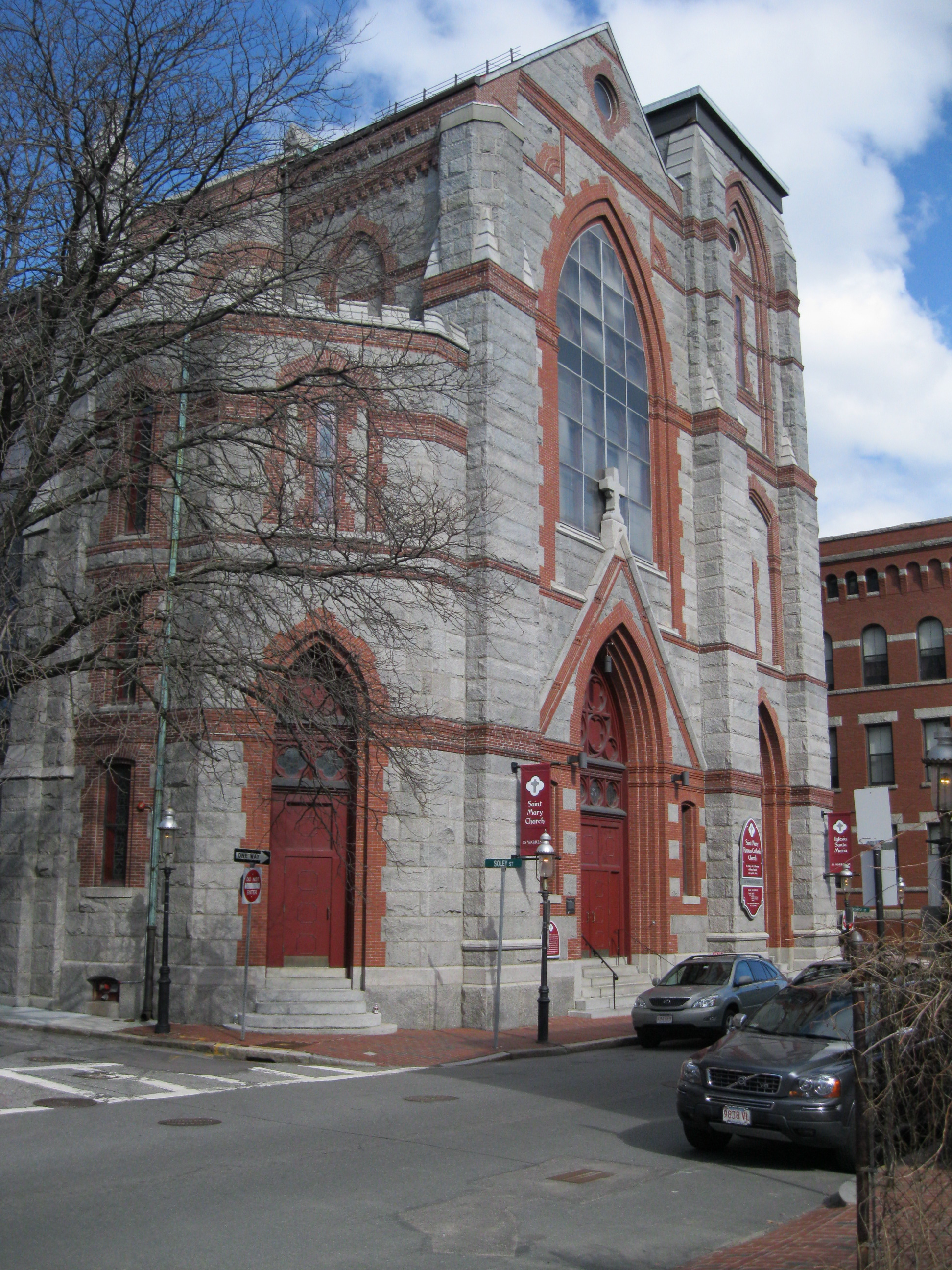 St. Mary's Catholic Church, located at 55 Warren St, Charlestown MA 02129